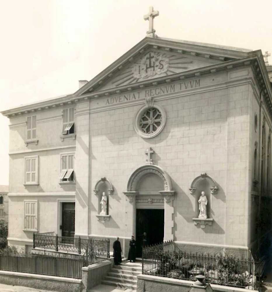 Face of the Sacred Heard of Monaco in 1929